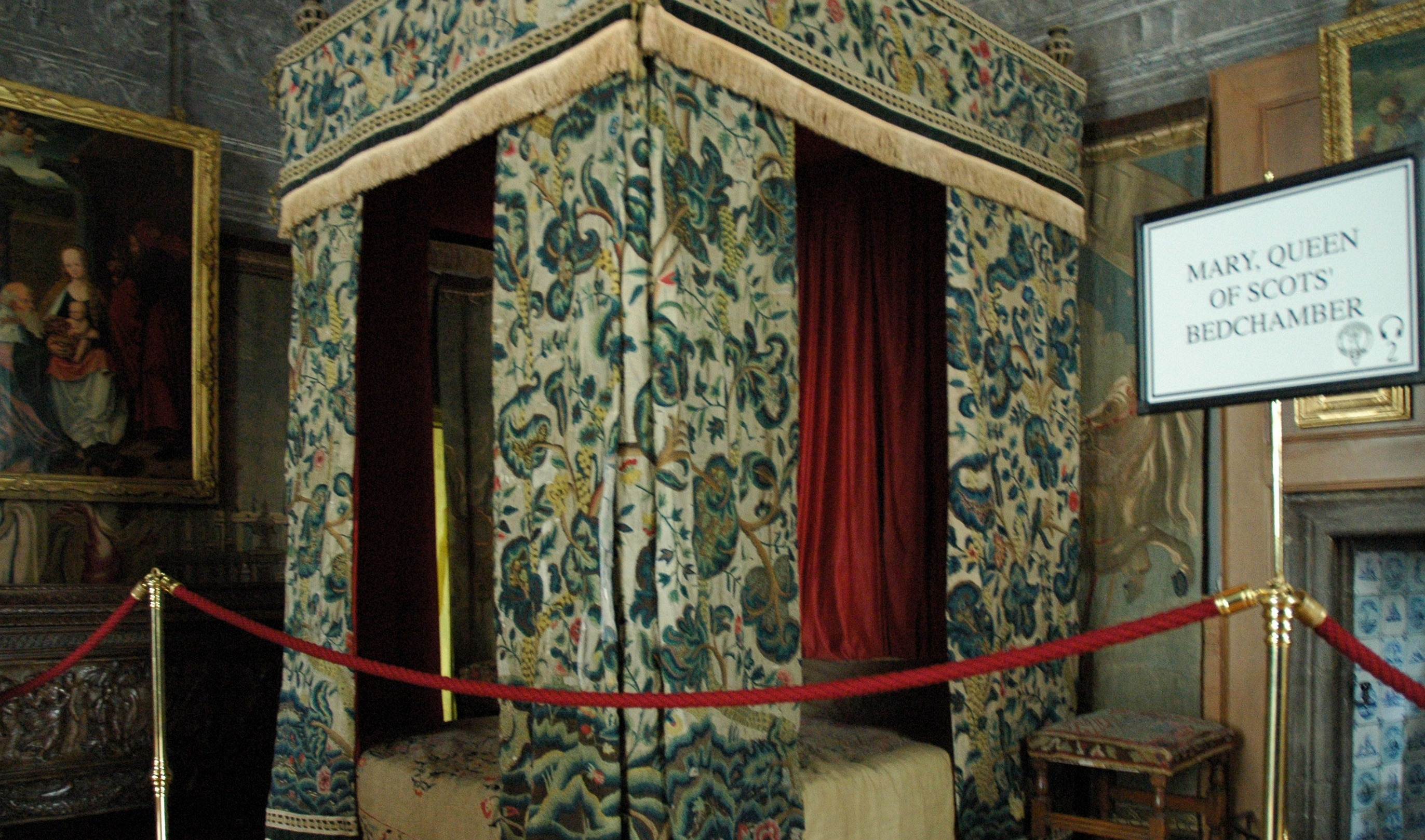 Mary Queen of Scots' bedchamber, Holyrood Palace, Edinburgh, Scotland